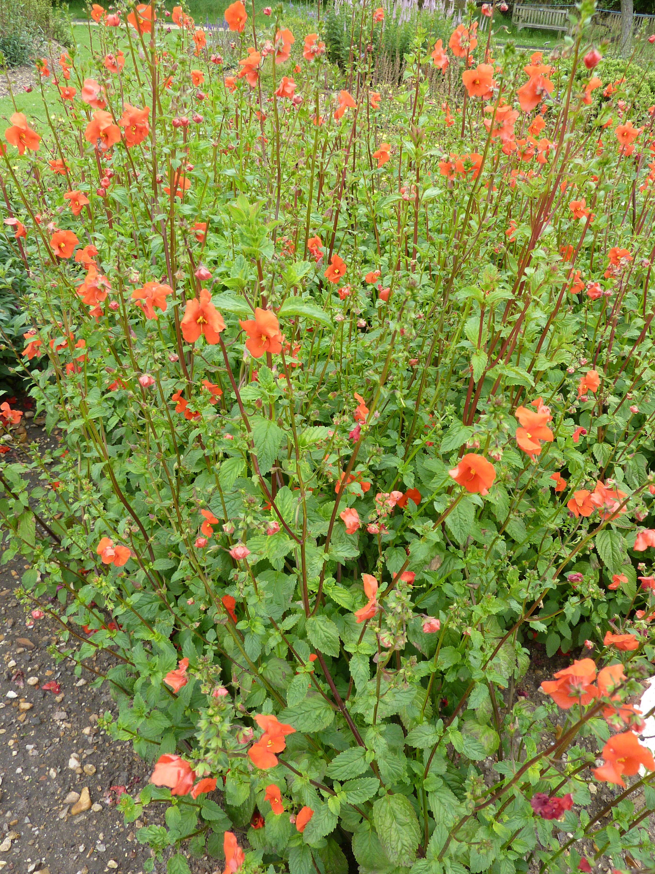 Alonsoa warscewiczii, Cambridge University Botanic Garden